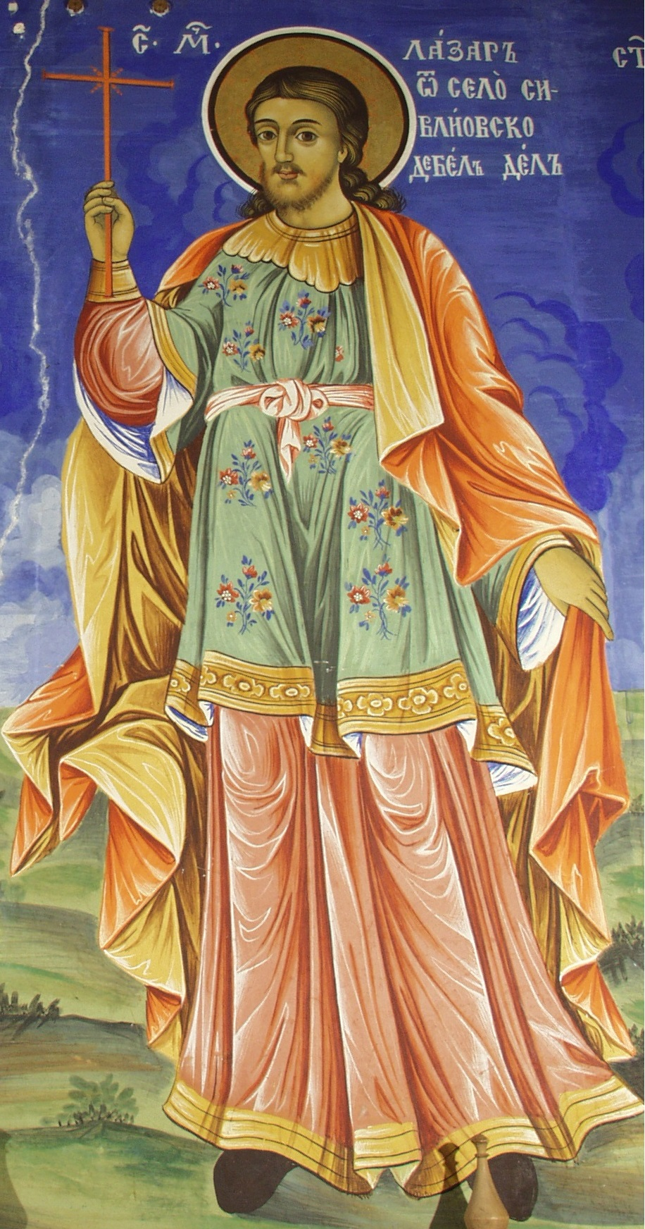 Archangels Chapel in Rila Monastery Frecos.